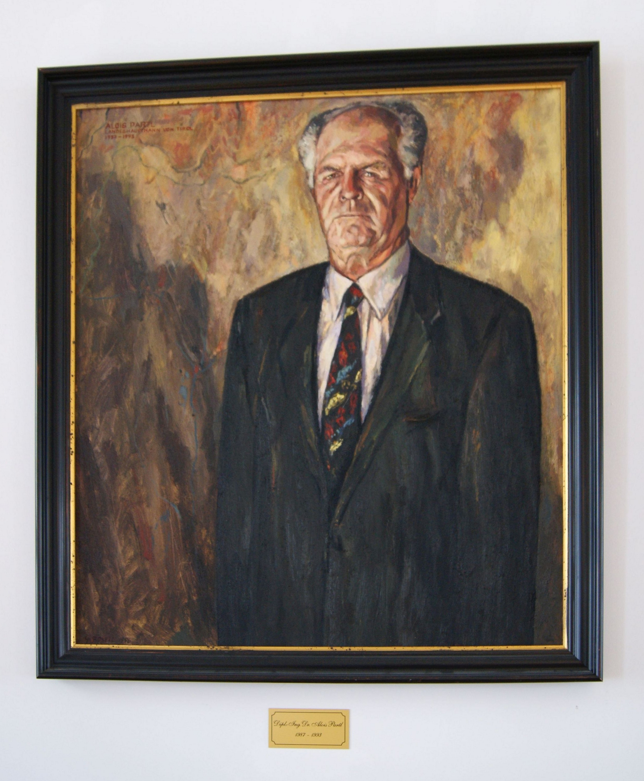 Alois Partl, head of the Provincial Government and the authority in charge of indirect federal administration of Tyrol.